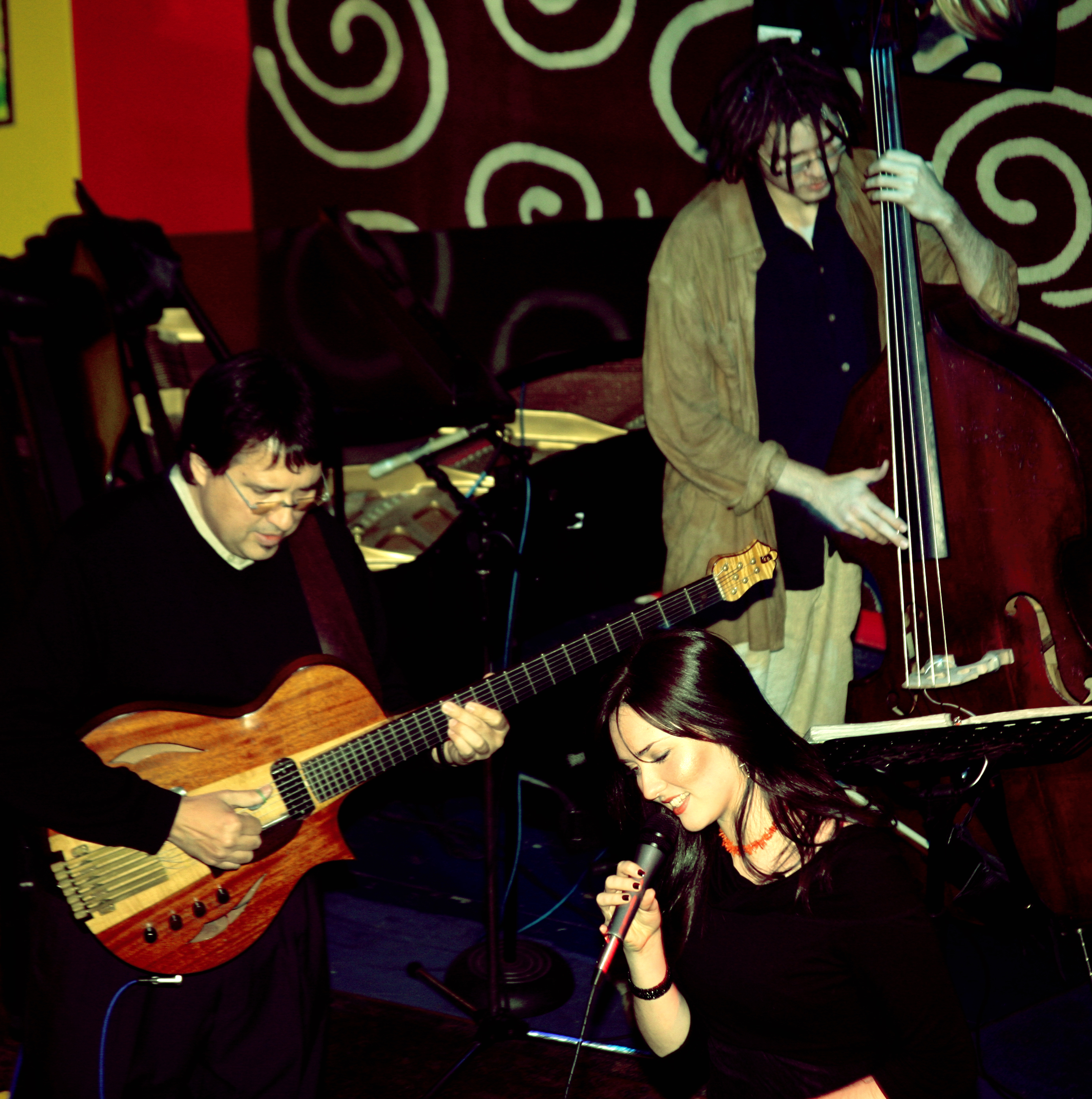 Steve Masakowski family